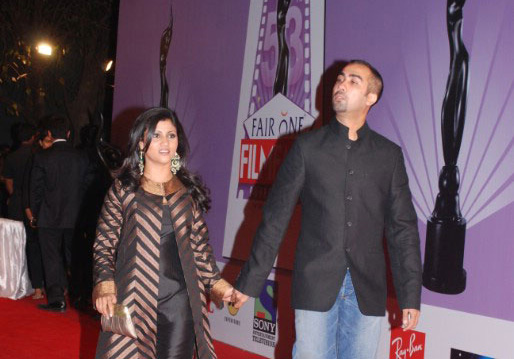 Template documentation: IndiaFM grants us permission to use some of their images under a cc-by-3.0 license. However, this applies only to images at sets, parties, and press meetings, and not screen-caps or photos copyrighted by other sites. Don't just upload images from there and put this license on it - all images from IndiaFM must be verified, individually or in small batches, by OTRS. This may be considered inconvenient, but it is a lot more inconvenient for people to have to delete all the images because one person may have done it wrong. For reference, the correspondence with indiaFM can be viewed at OTRS ticket 2008030310010794.